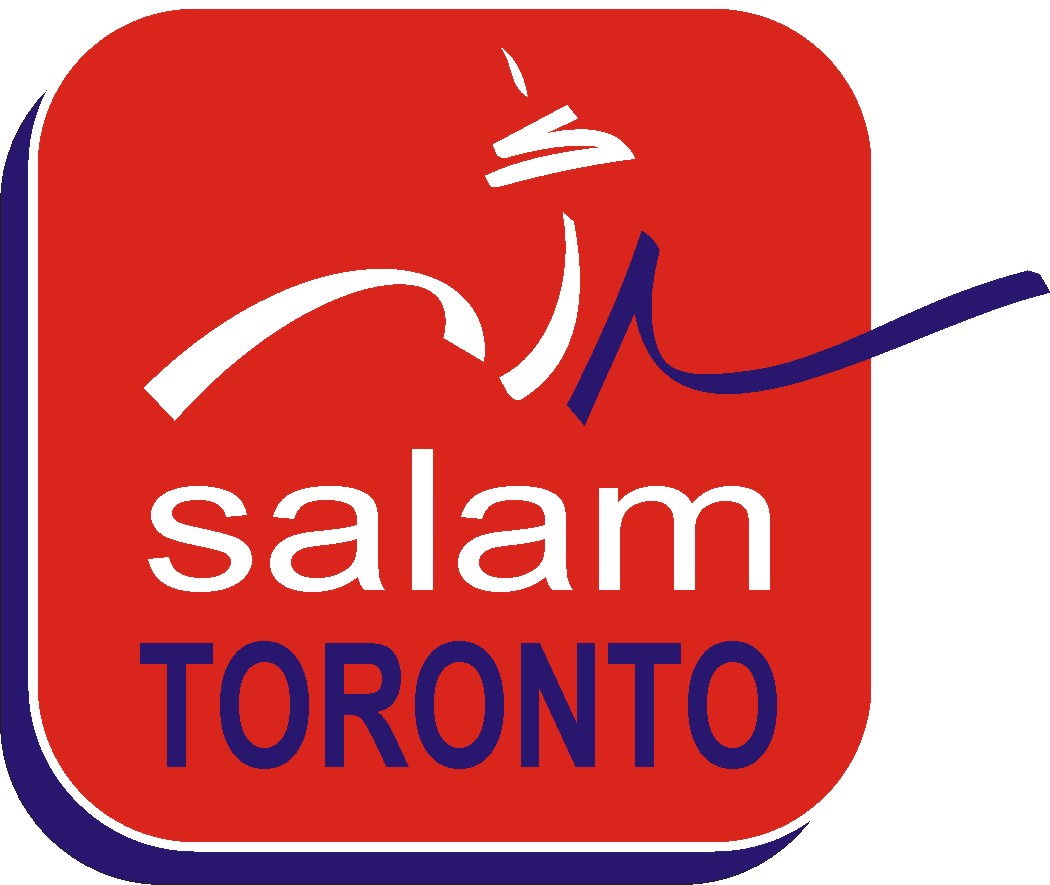 Salam Toronto's Logo